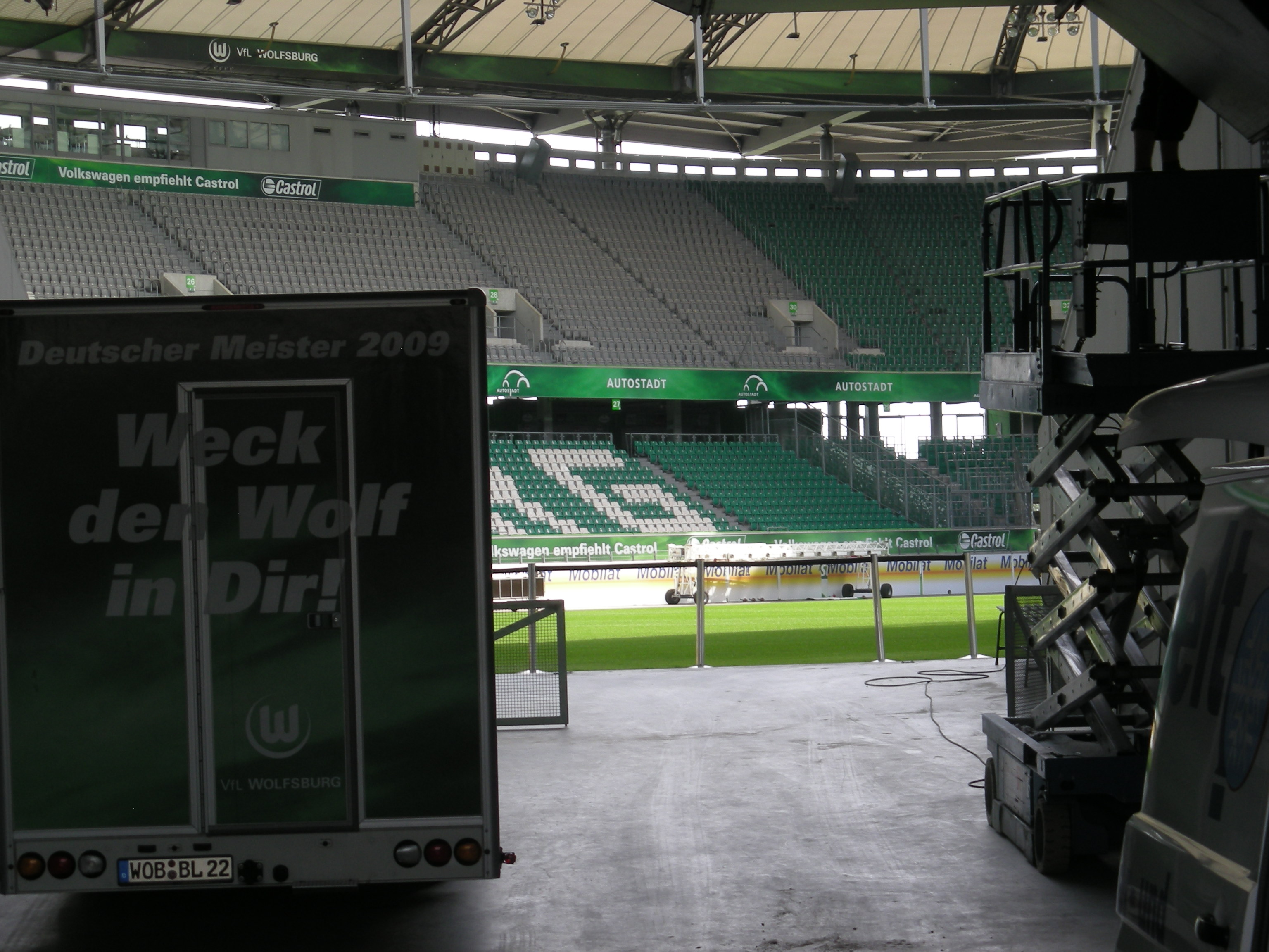 The interior of Volkswagen Arena in Wolfsburg, Niedersachsen (Germany).